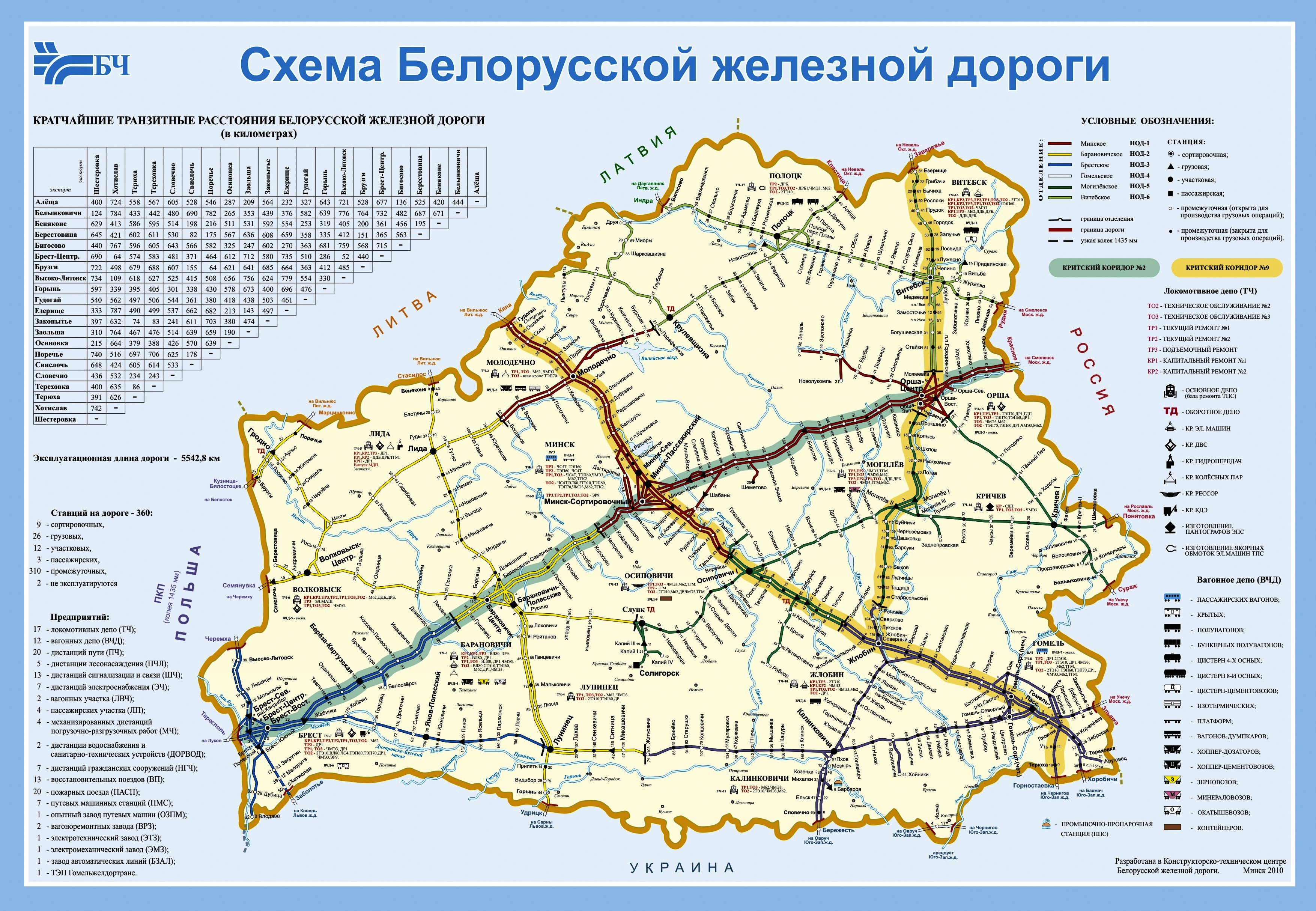 Driving Belarusian Railways of 2010